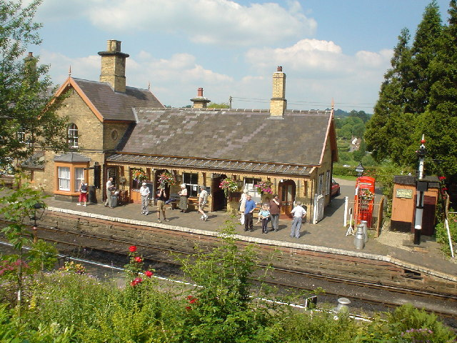 Arley Station. Part of the Severn Valley Railway